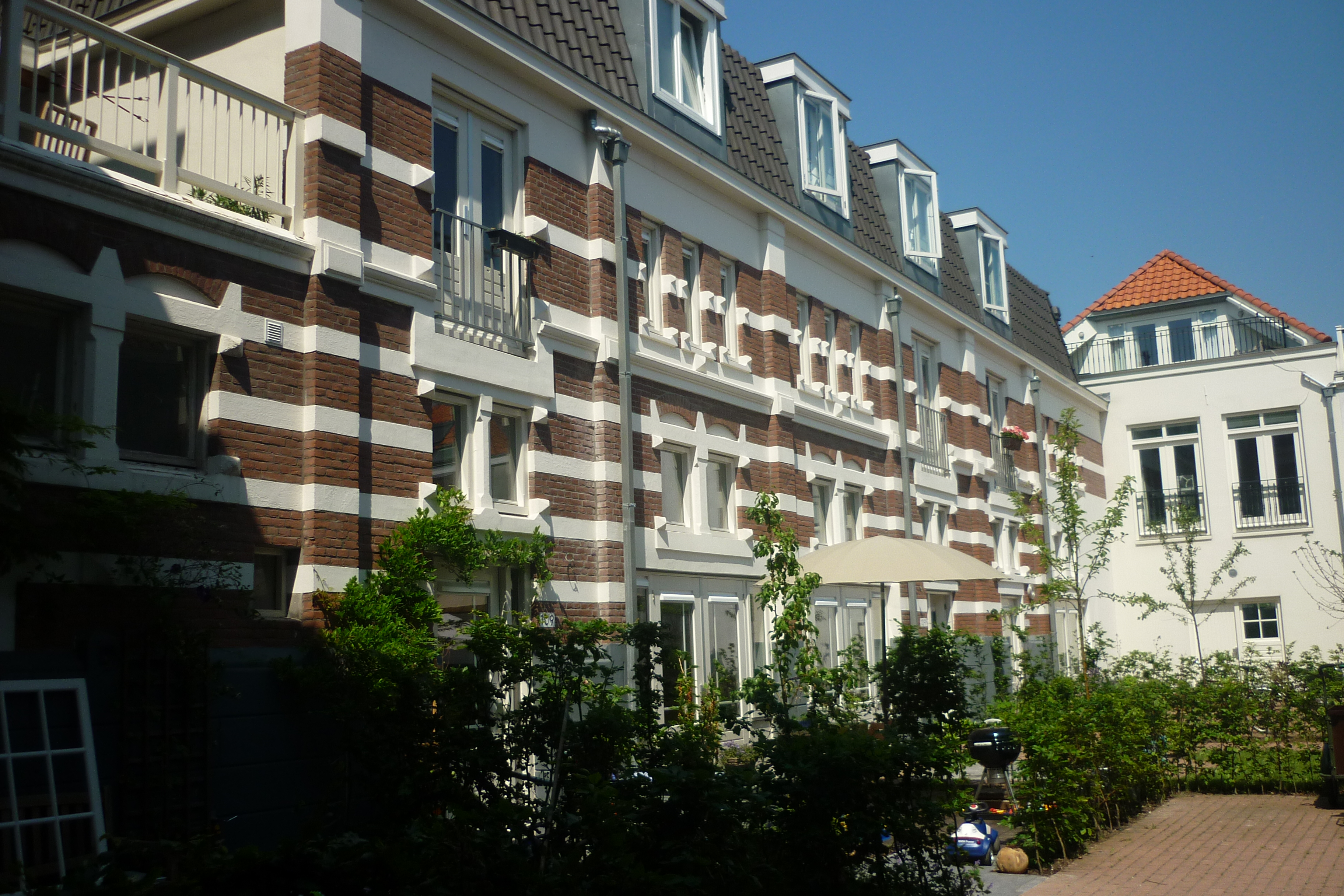 Hofje in The Hague